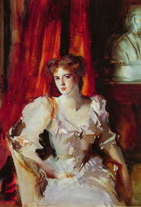 Sybil Frances Grey, later Lady Eden